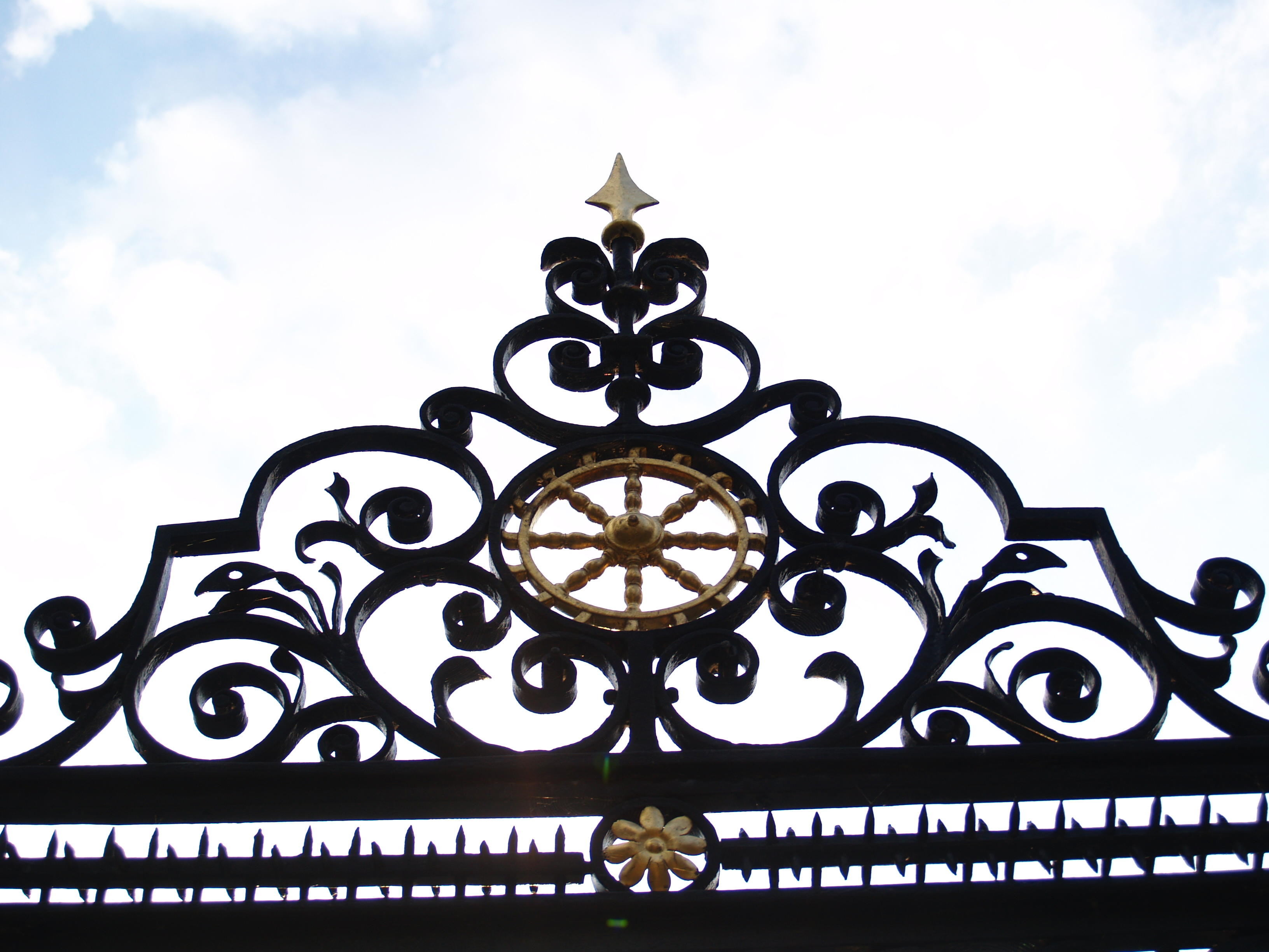 The front gate of St. Catharine's College, Cambridge with a Catharine Wheel